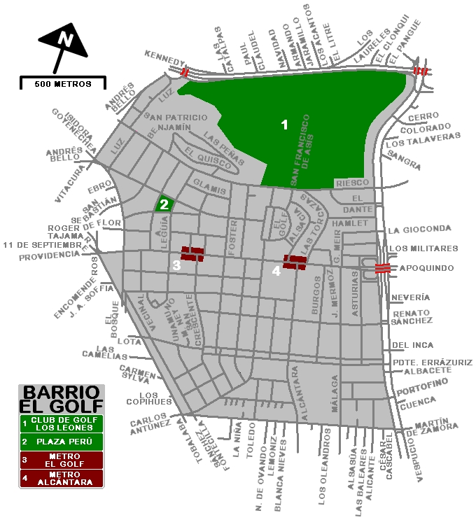 Map of El Golf area, of Santiago, Chile.